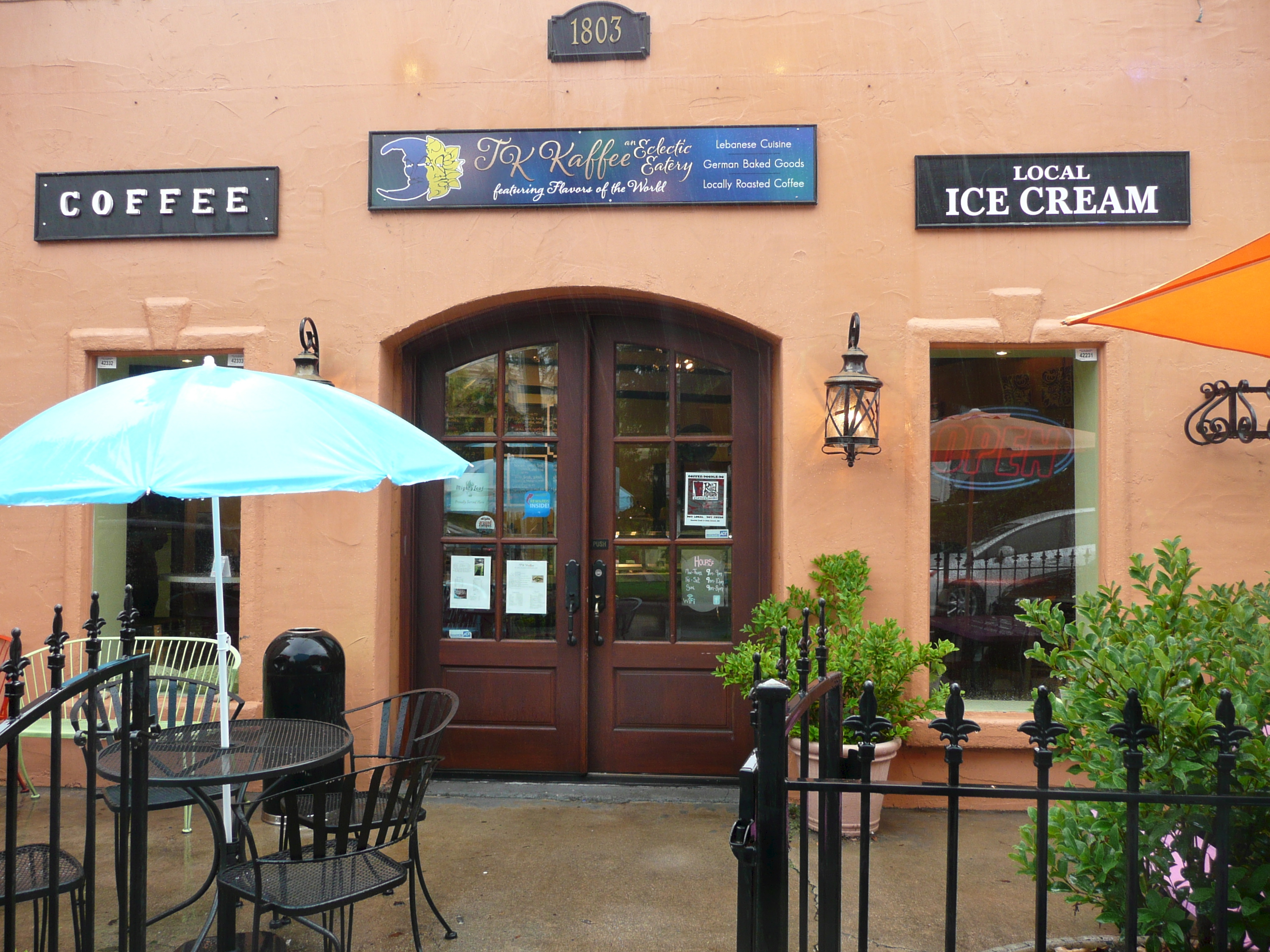 TK Kaffee and Eclectic Eatery, Five Points, Raleigh, North Carolina, taken during the Summer of Monuments camping trip, 2014. This image was uploaded as part of Wikipedia Summer of Monuments. English |+/−